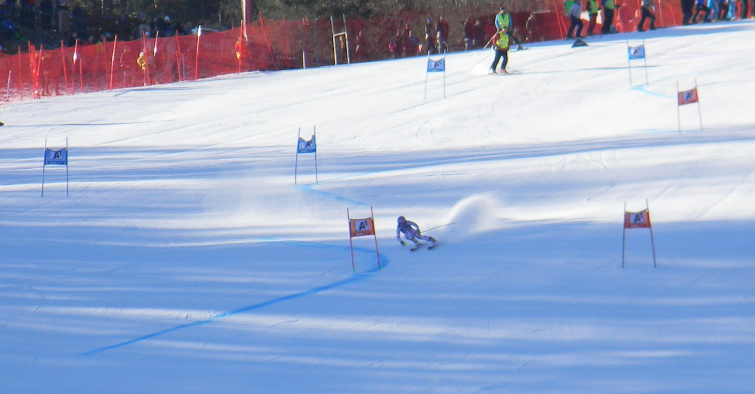 Tessa Worley of France competes during the Audi FIS Alpine Ski World Cup Women's Giant Slalom on December 28, 2015 in Lienz, Austria